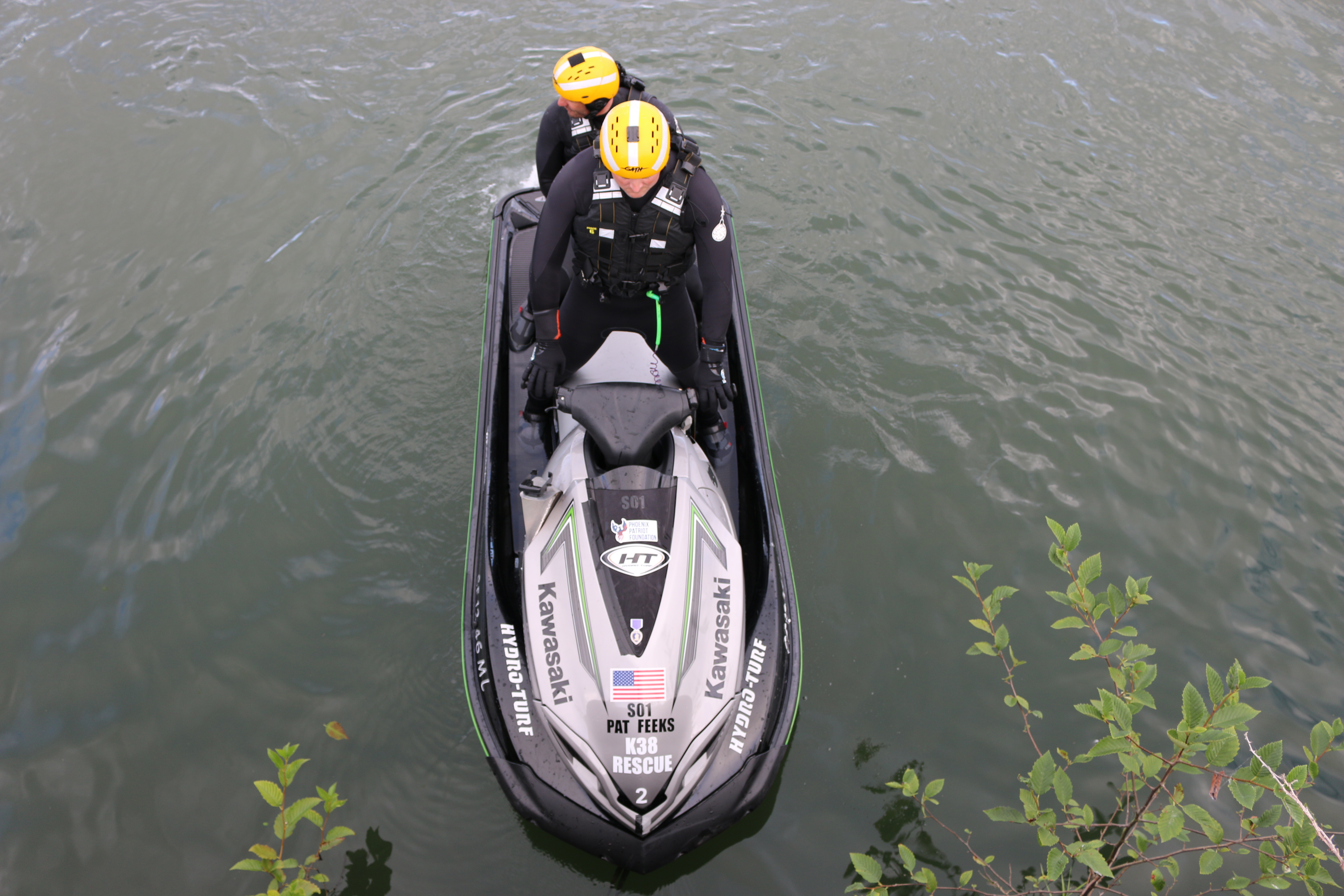 K38 training preparedness